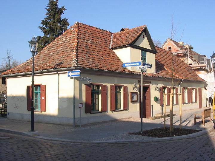 Museum of local history in the oldest building (built in 1711) of Teltow. The town Teltow belongs to the district Potsdam-Mittelmark in the state Brandenburg, Germany, and borders to the south of Berlin.